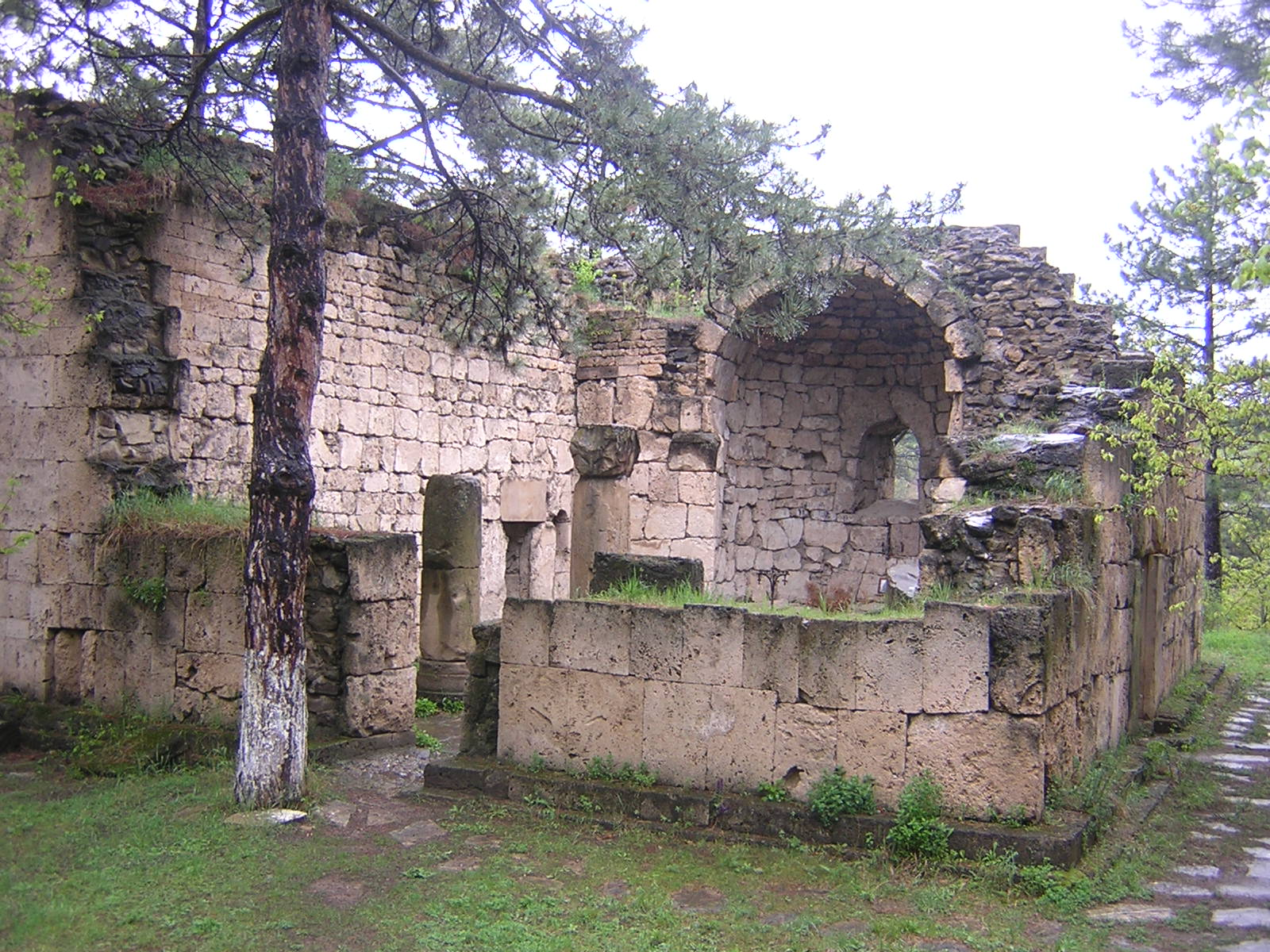 Jinvali church in Etnographical museum. Tbilisi, Georgia